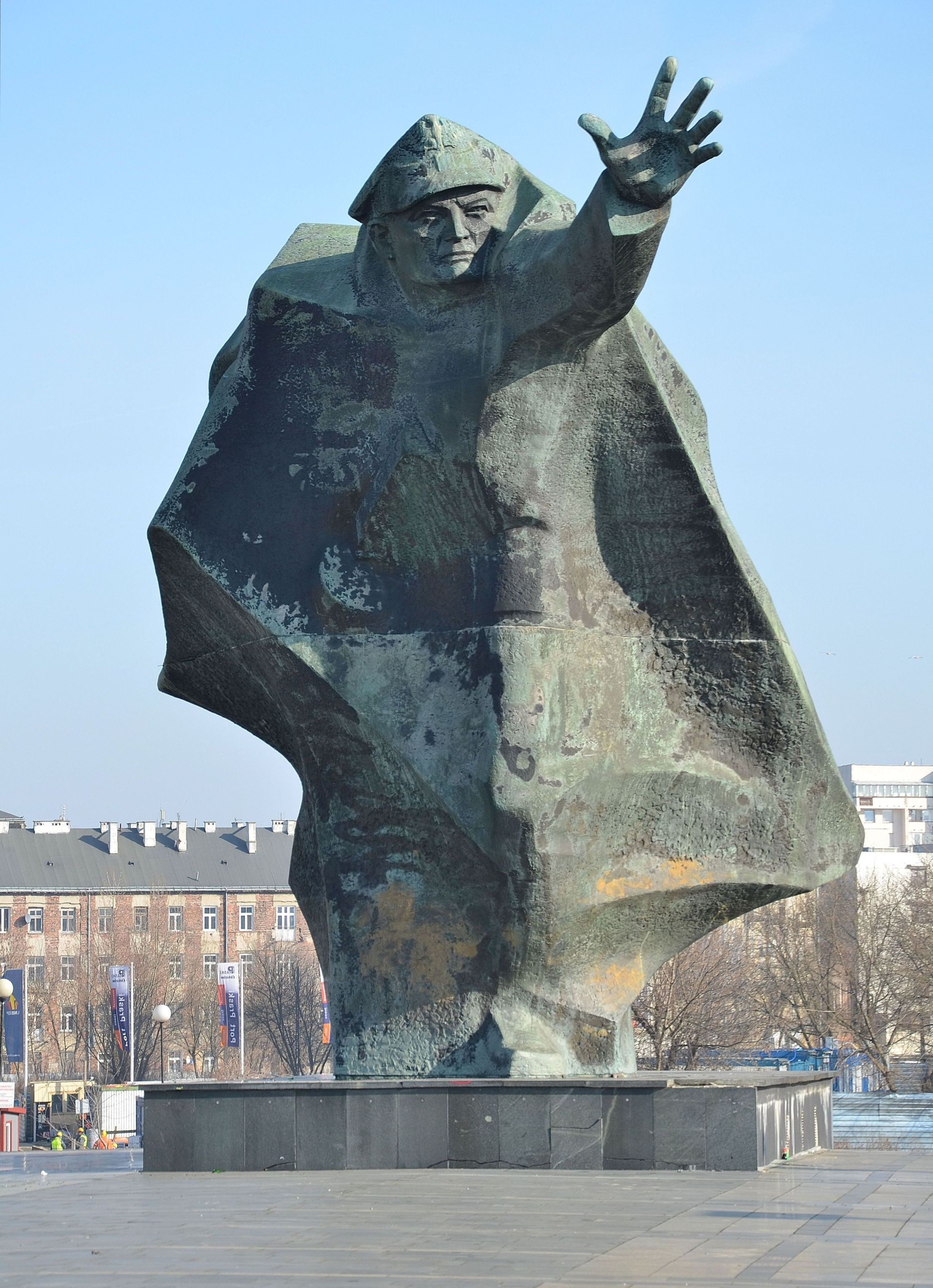 Kościuszkowców Monument in Warsaw